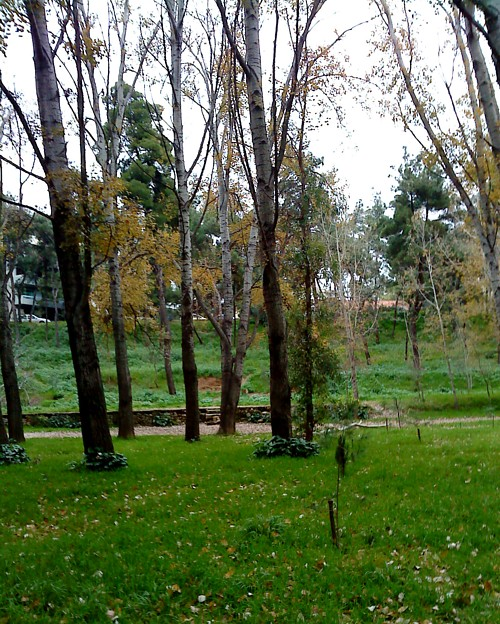 Rematia Chalandri